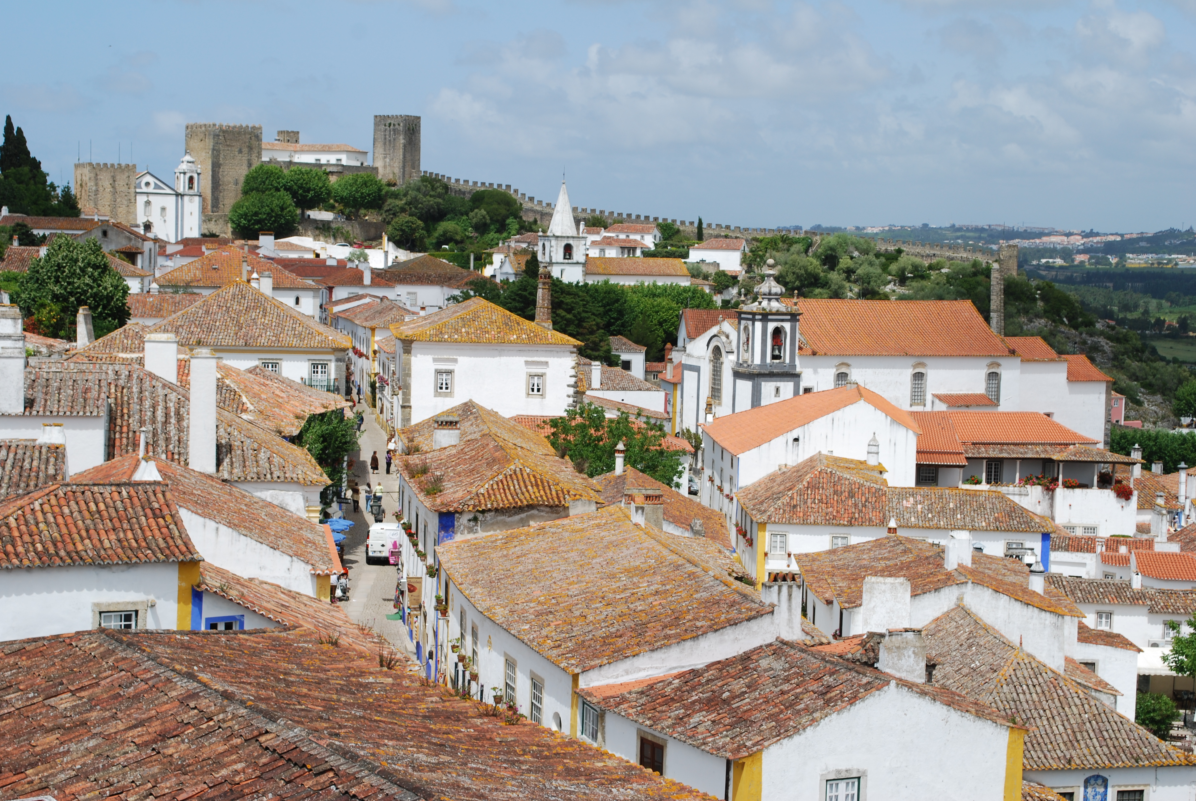 This file was uploaded for Wiki Loves Monuments in Portugal with the unique identifier 70427.